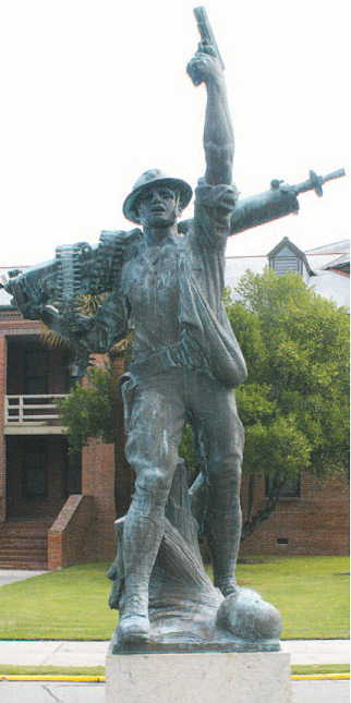 Ironmike2